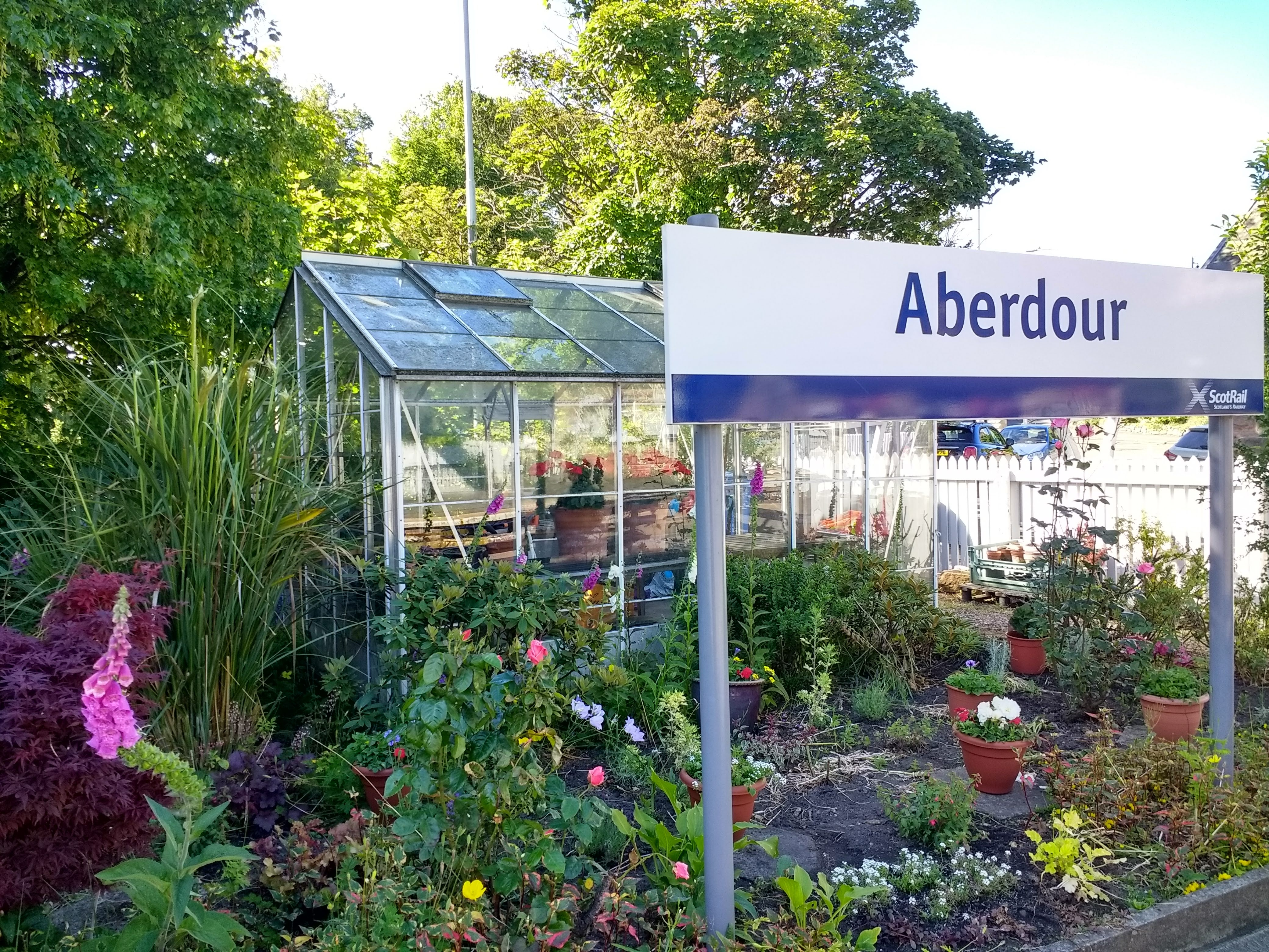 A garden and greenhouse at Aberdour station